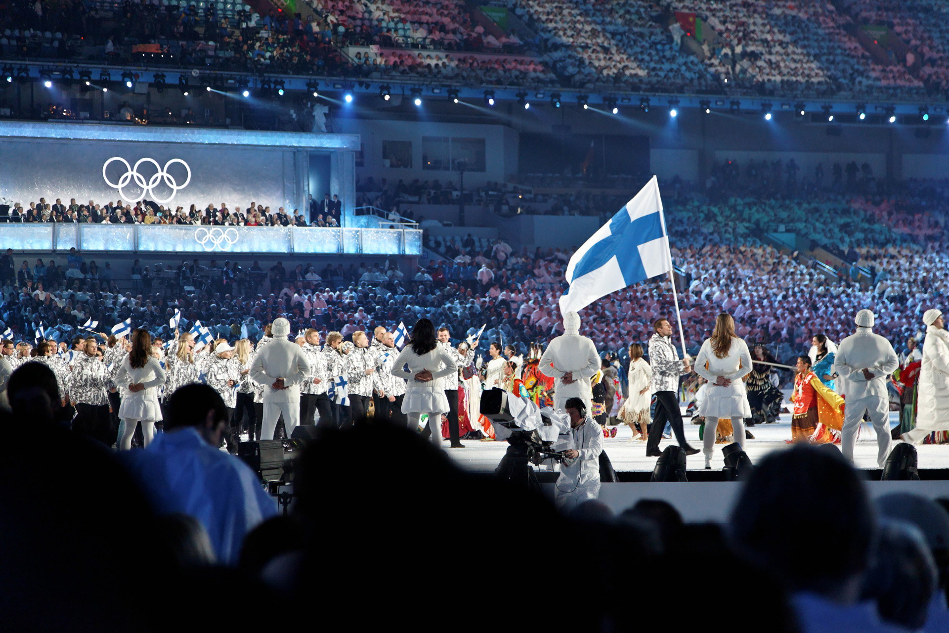 Ice hockey player Ville Peltonen leads Finland in the Parade of Nations. The Opening Ceremony for the 21st Olympic Winter Games in Vancouver British Columbia, Canada was truly an event that I feel privileged to have attended. There is something about the Olympics, and the way it is able to unite the World. I met people from every corner of the globe, every one of them in a cheerful mood, every one of them getting along. Only an event like the Olympics can bring people from so far apart, so close together. It was an amazing experience that I will never forget. Absolutely amazing :)